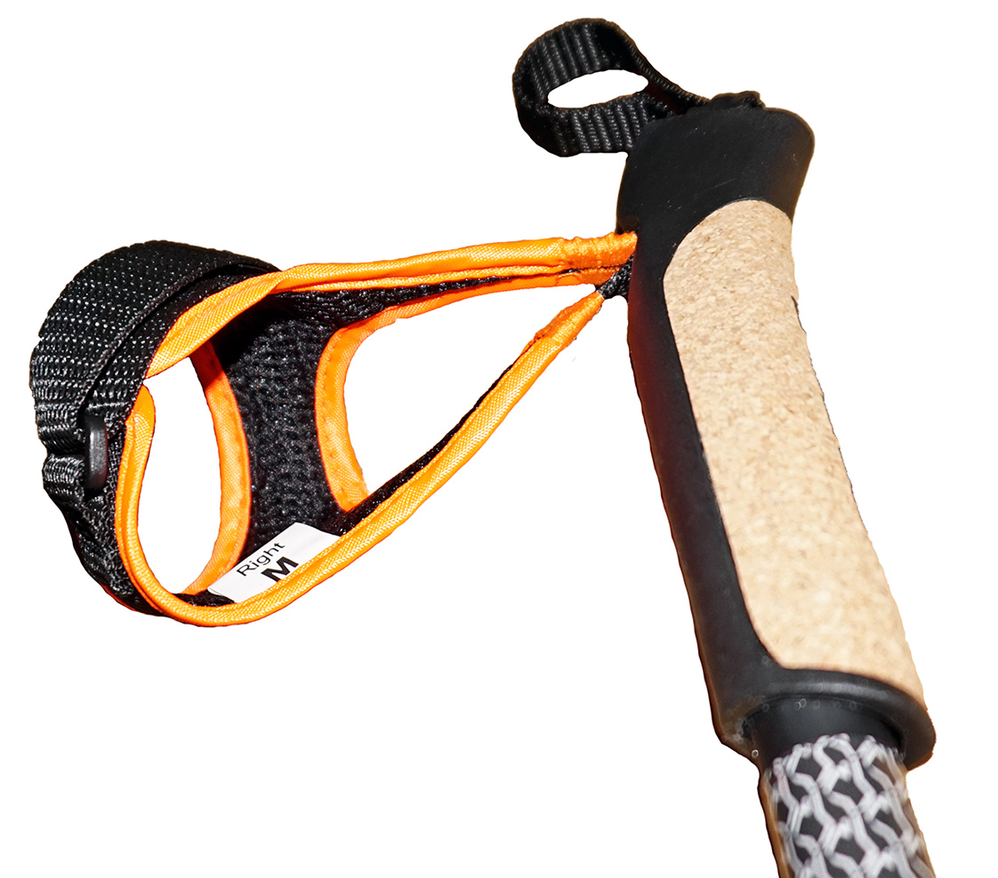 Grip of cross-country ski poles Yoko 560. With the adjusted strap for right hand.